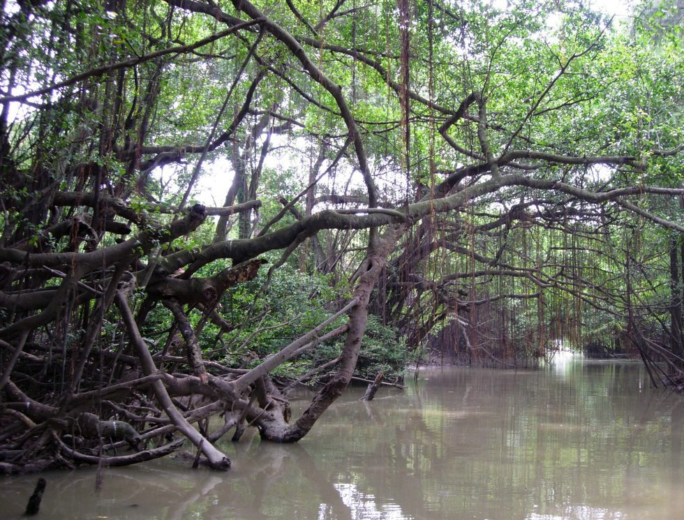 Banyan on Birdie Heaven